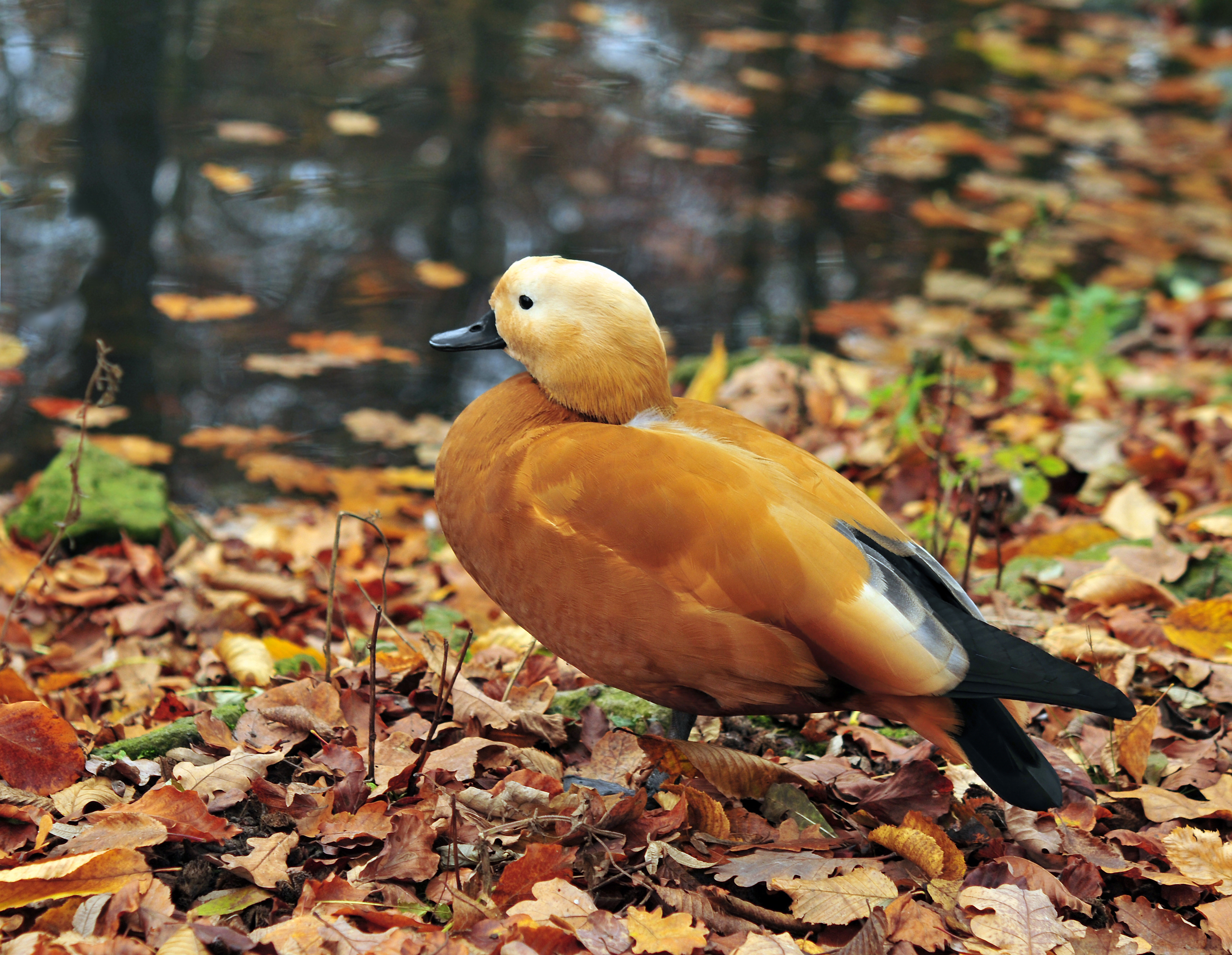 Ruddy Shelduck